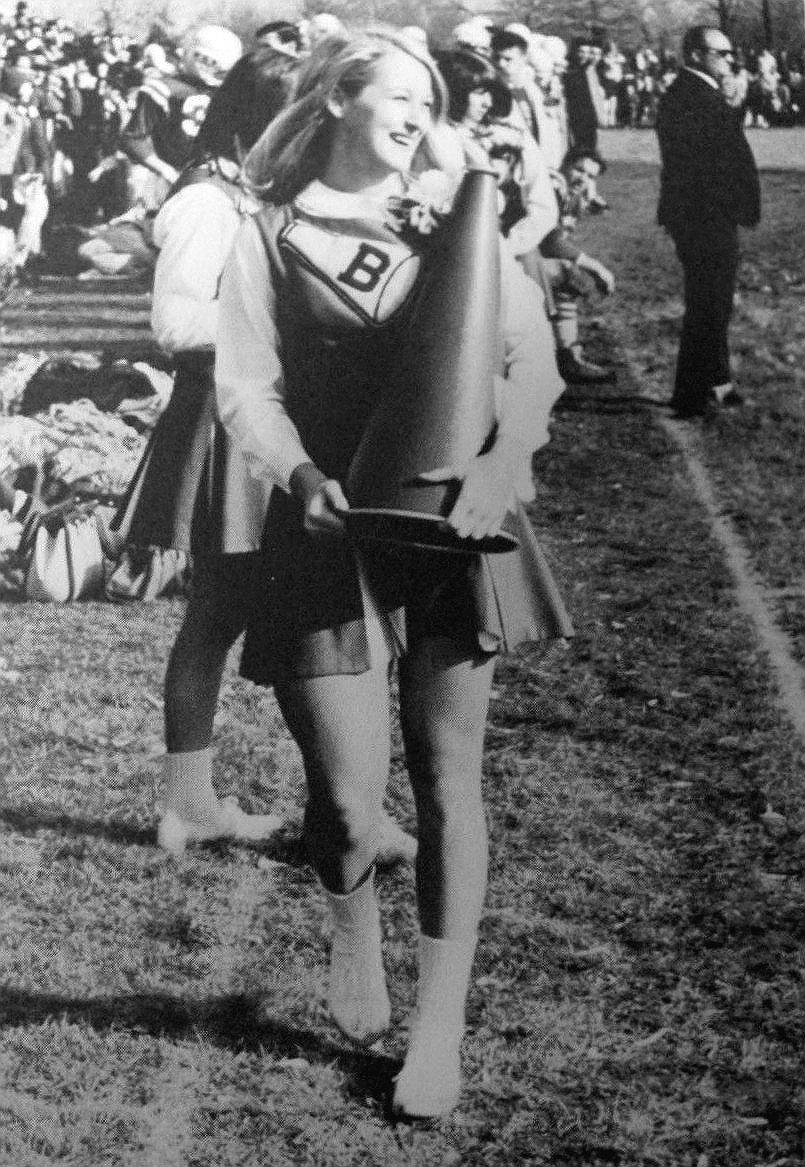 Black and White yearbook photograph of Meryl Streep cheerleading.